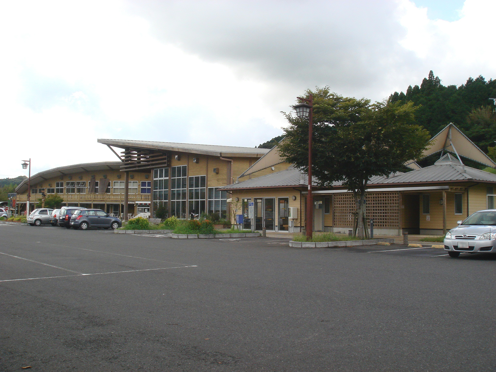 Michinoeki-Kawanabe yasuragi no sato (minami-kyushu, kagoshima)